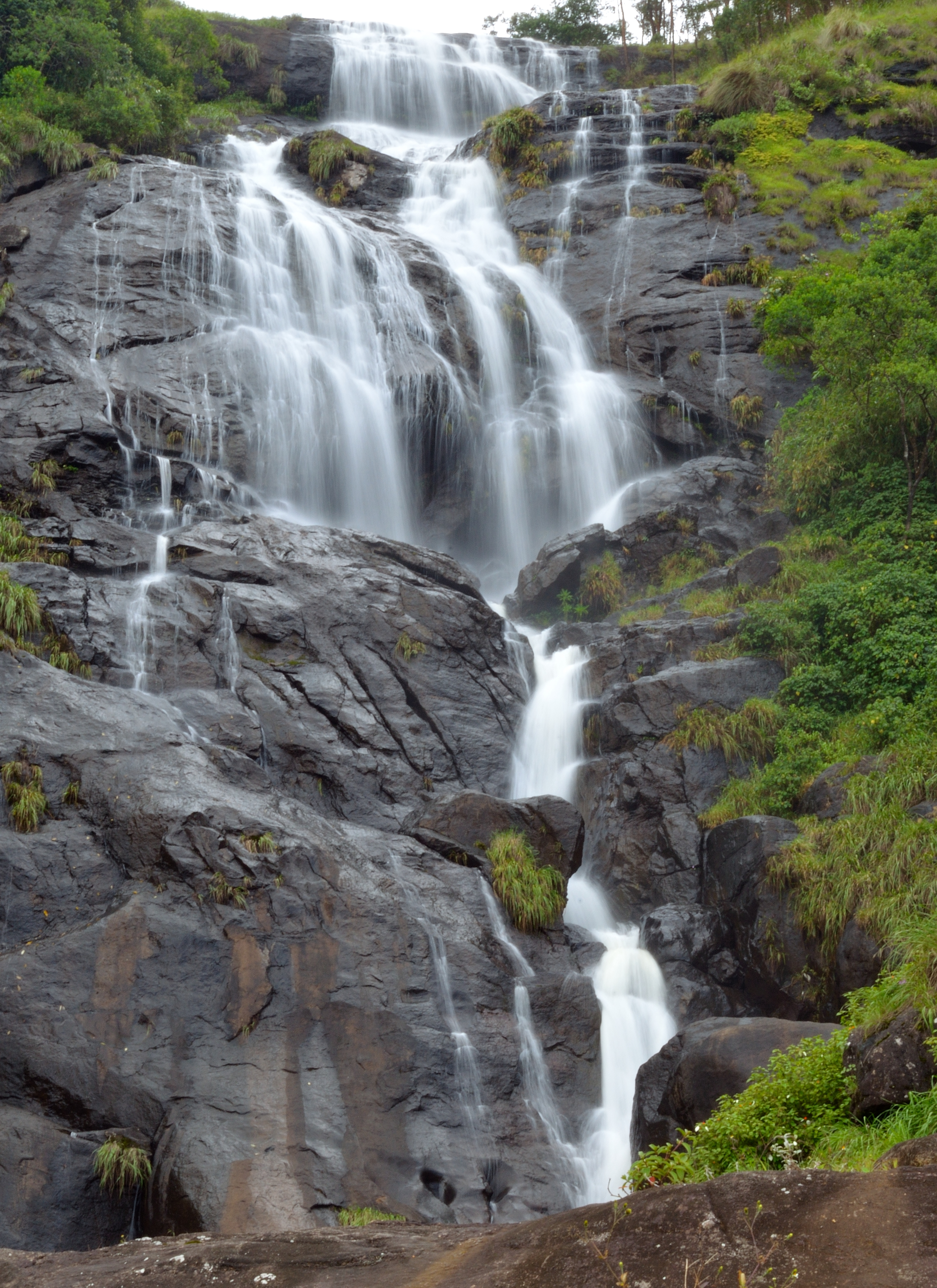 This is the Chinnakanal falls located in Munnar, Kerala listed on the list of waterfalls in India.